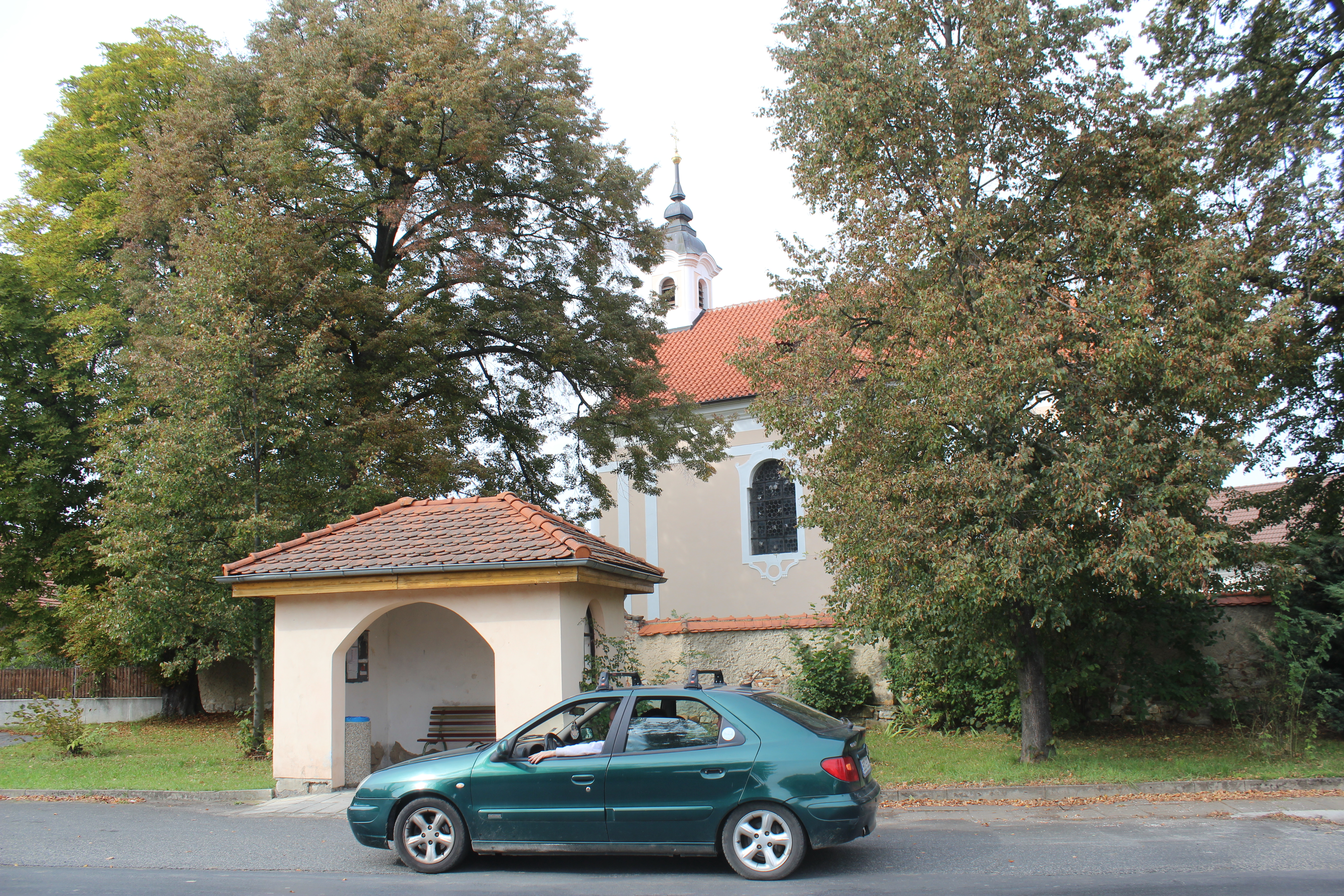 Skřipel (Skřipel)